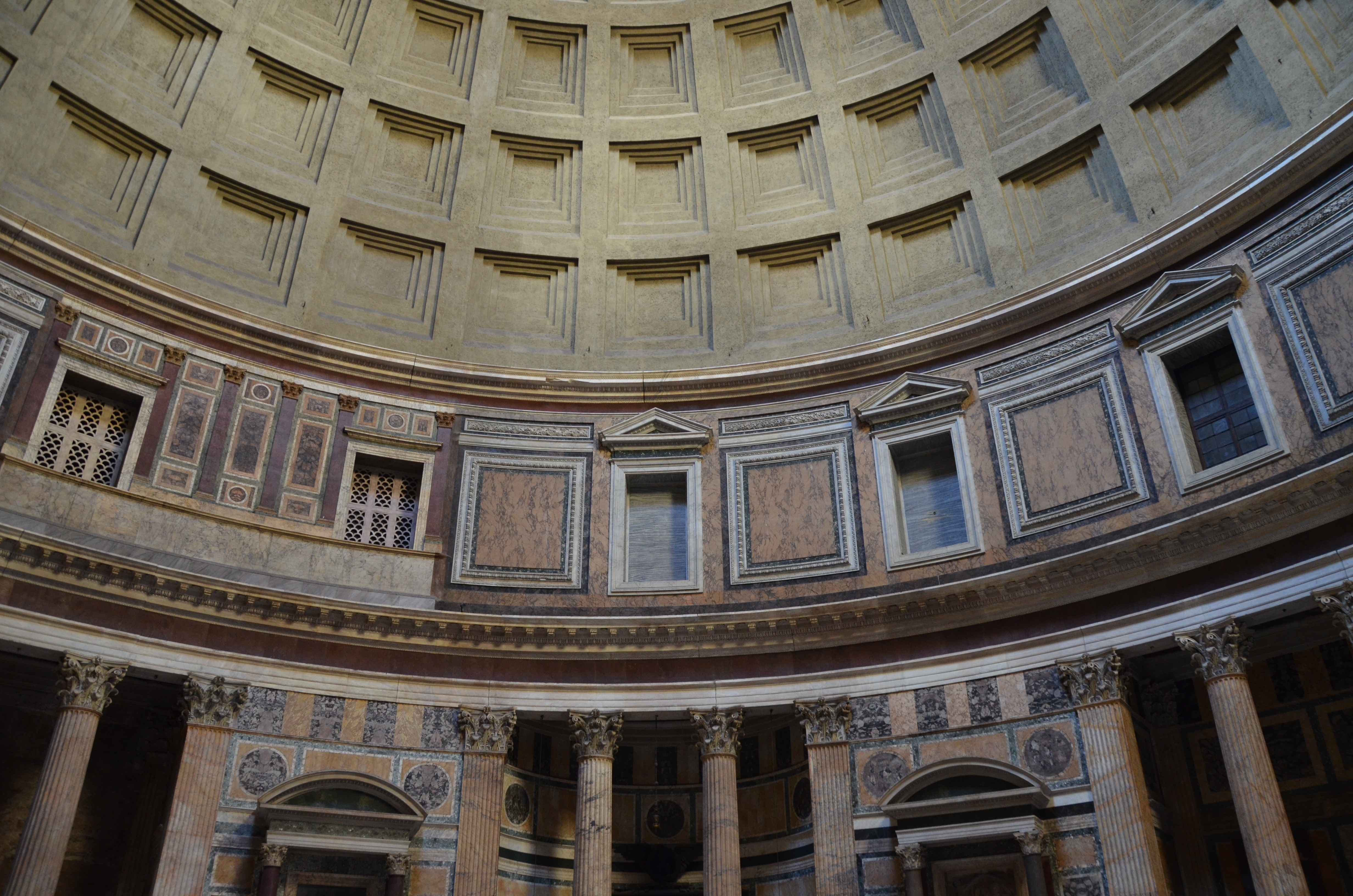 The Pantheon, Rome